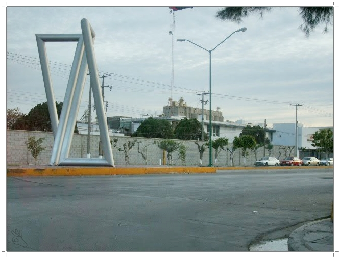 factory